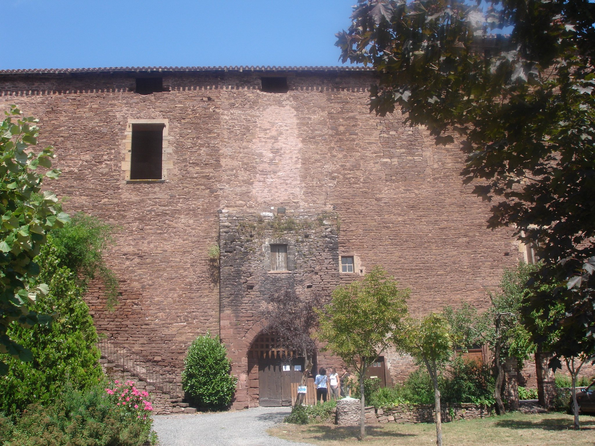 France, Aveyron (12), Saint-Izaire Castle